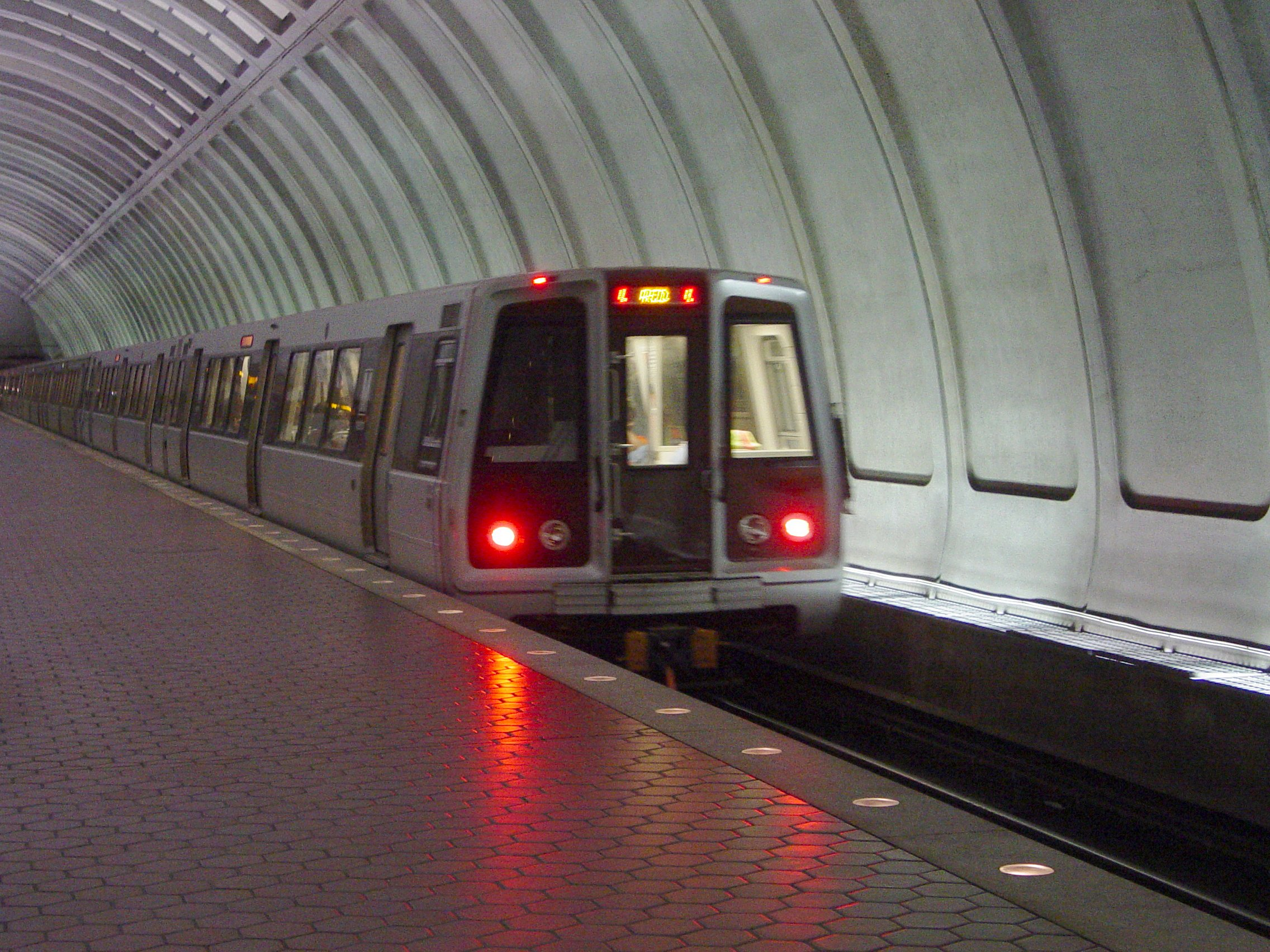 Cleveland Park Metro station